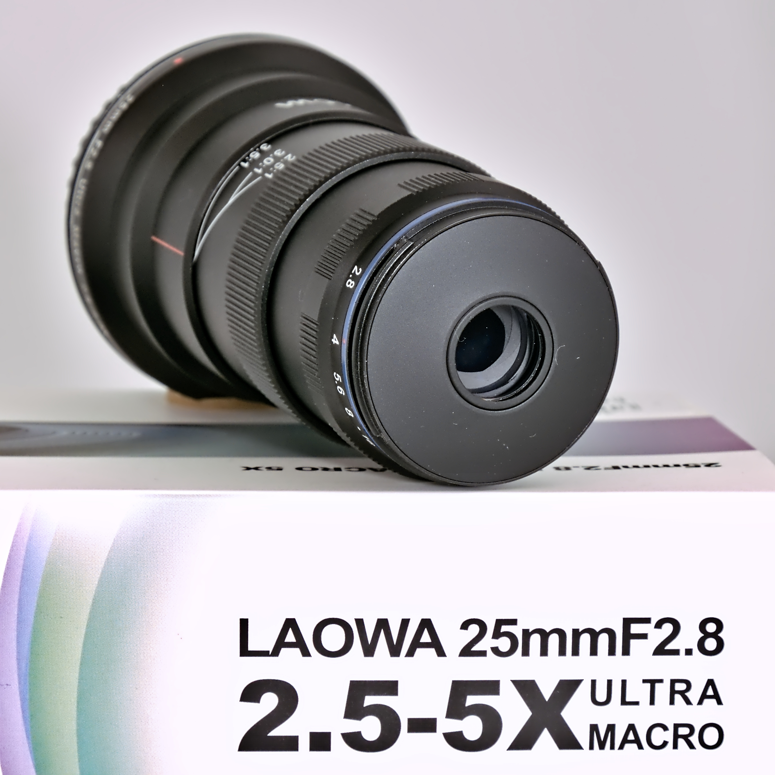 Venus Optics Laowa 25 mm f/2.8 2.5:1-5:1 ultra macro lens, 5:1 setting, version Canon EF-Mount, frontal view